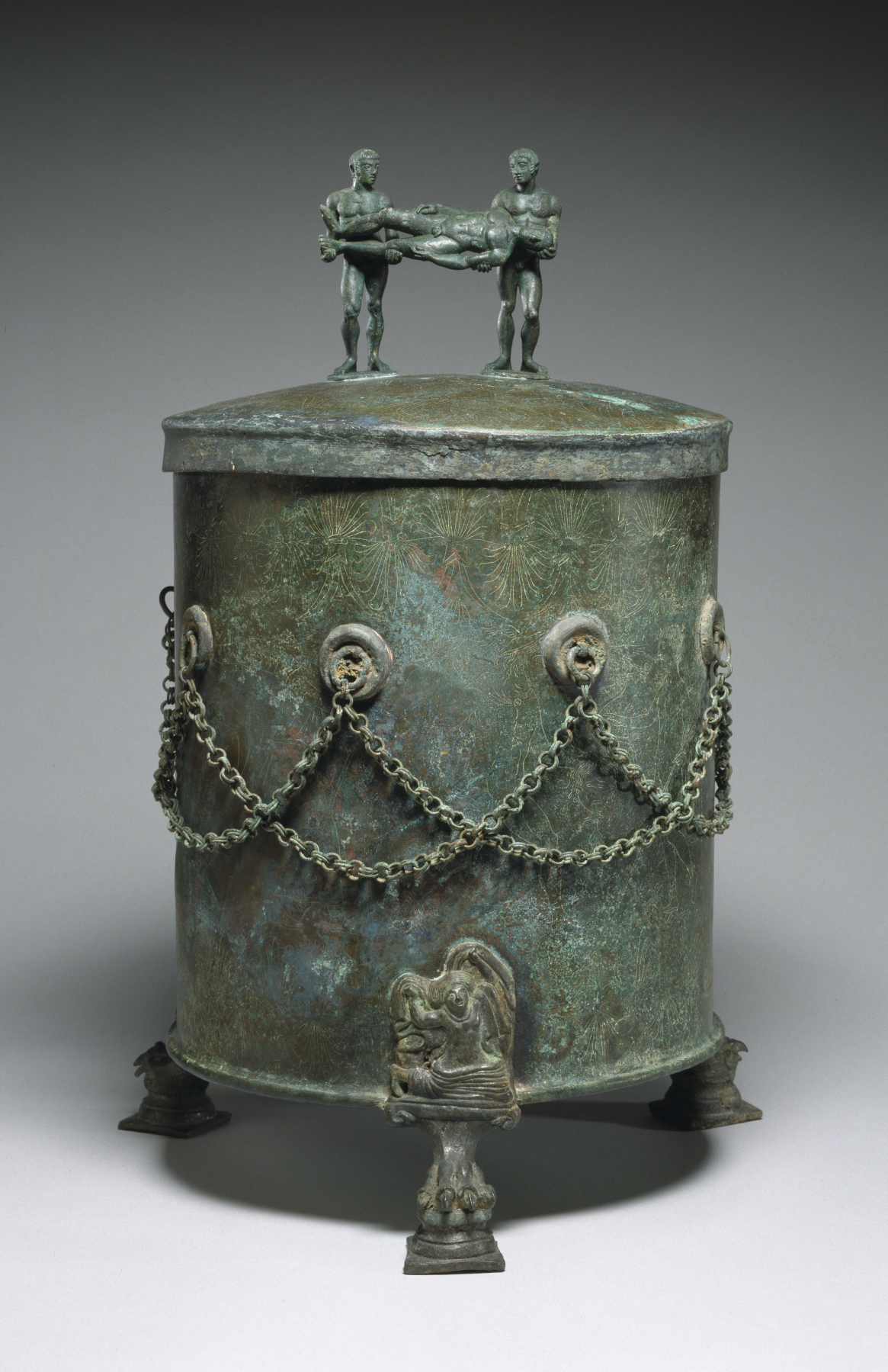 Cistae were containers used to safeguard precious objects, including mirrors, perfume flasks, and cosmetics. A particular type of cista was made during the 4th and 3rd centuries BC in Praeneste, a site in Latium (the region around Rome) that was heavily influenced by Etruscan culture. The elaborately engraved scenes are thought to imitate famous, but now lost, Greek wall-paintings. The ancient metalworker often pressed a white substance into the engraved lines in order to accentuate the decoration. The handles commonly take the form of human figures. Many artists in other early Italian cultures similarly incorporated figures of humans in functional objects.